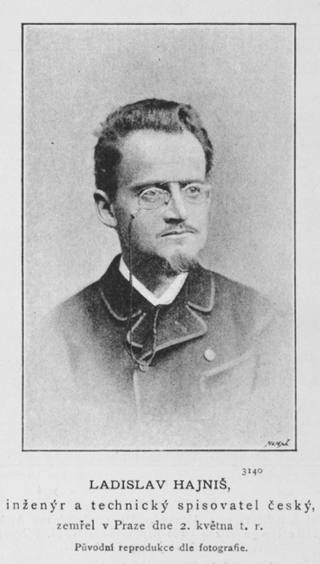 Portrait of Ladislav Hajniš (1849-1889), Czech technician